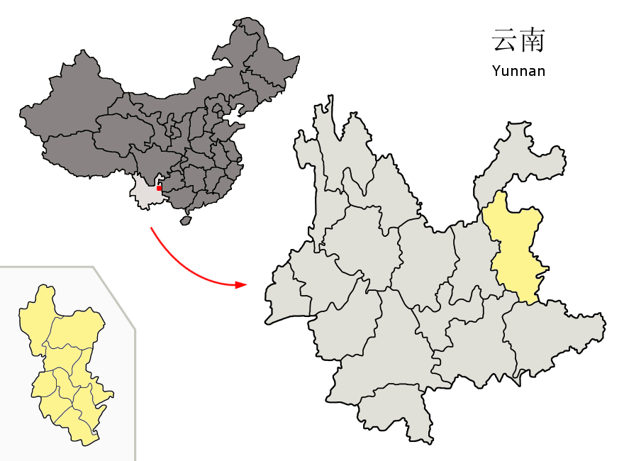 Location of Qujing Prefecture (yellow) within Yunnan province of China Map drawn in september 2007 using various sources, mainly : Yunnan province administrative regions GIS data: 1:1M, County level, 1990 Yunnan Counties map from